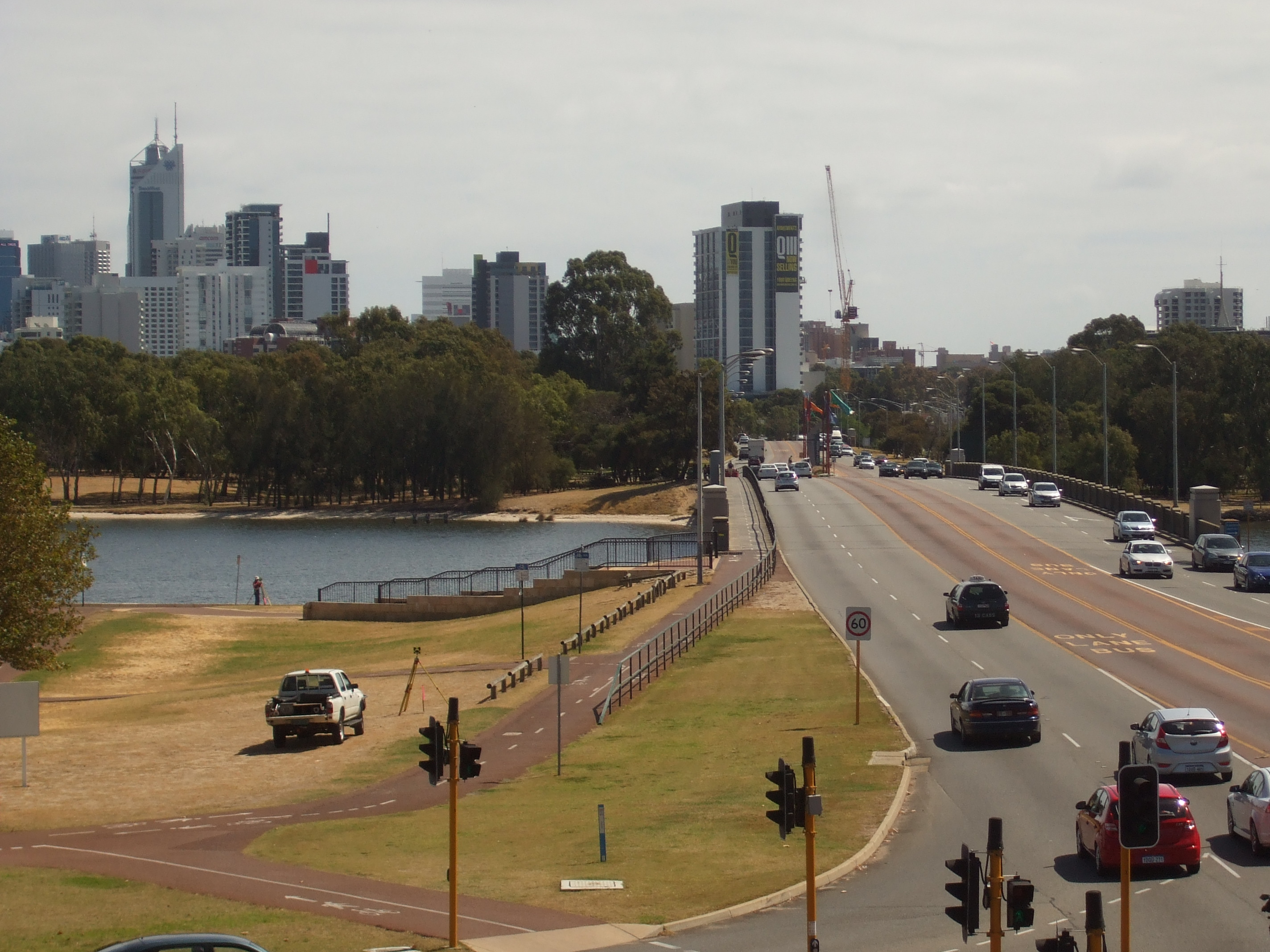 The Causeway crossing the Swan River into the Perth city centre, viewed from the Canning Highway overpass.